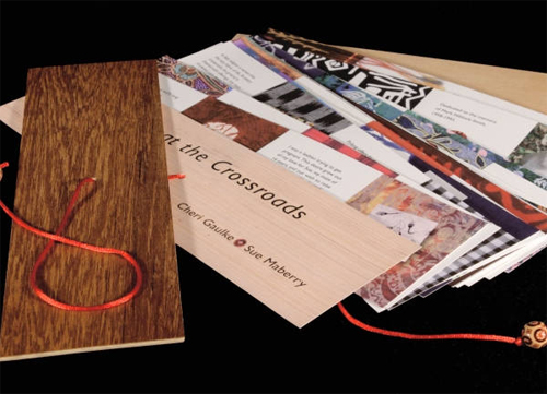 Offerings at the Crossroads is an artist's book by Cheri Gaulke and Sue Maberry. Created in an edition of 100, it references Balinese palm books. It was designed on a computer and digitally printed. It is a moving story about two couples on a journey to Bali, one trying to conceive a child while another was dying of AIDS, told in image and text.